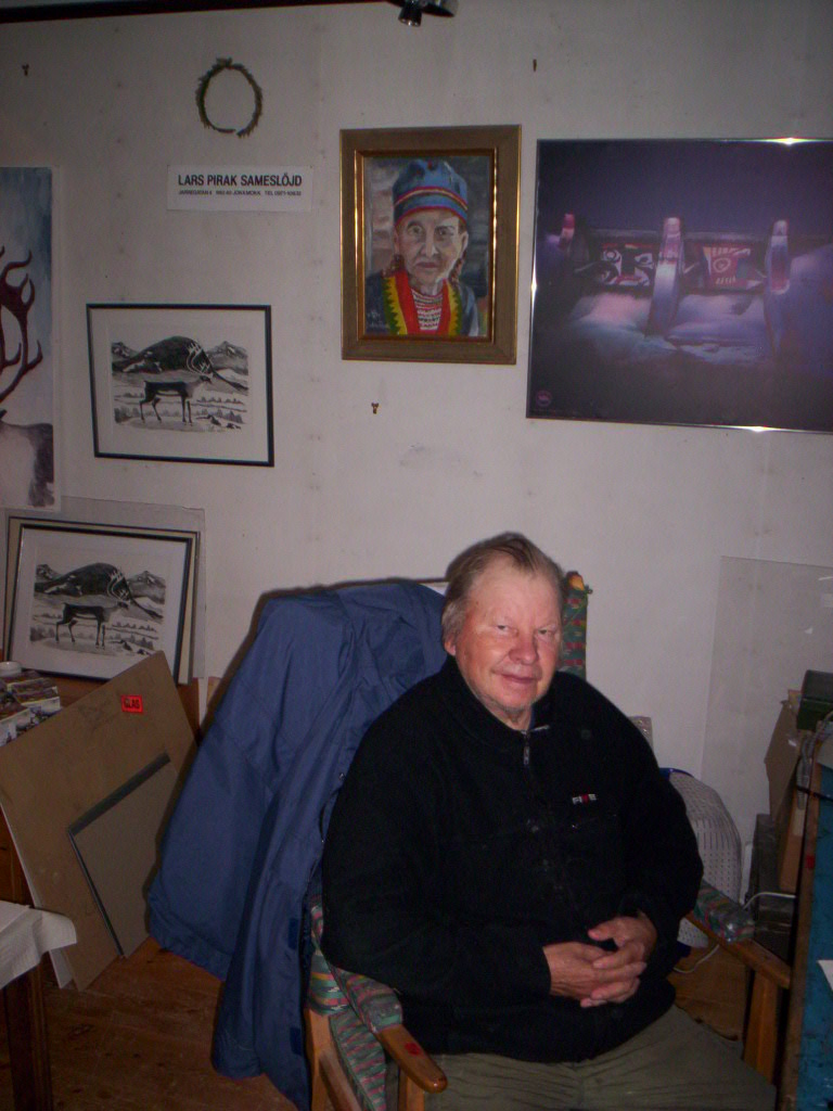 Lars Pirak, a Saami artist.